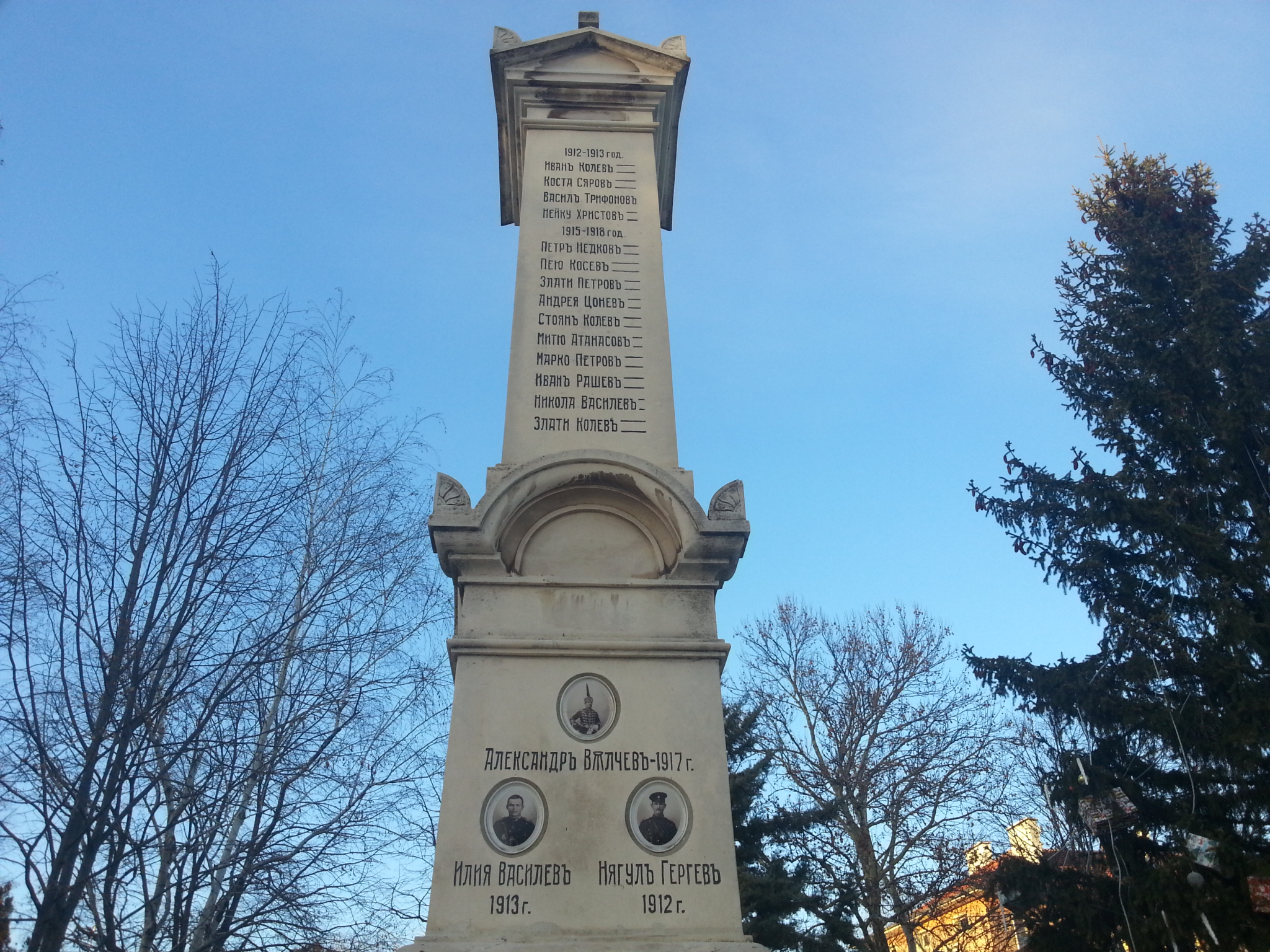 War memorial in a village square in the town of Nikolaevo, in Stara Zagora Province, Bulgaria.